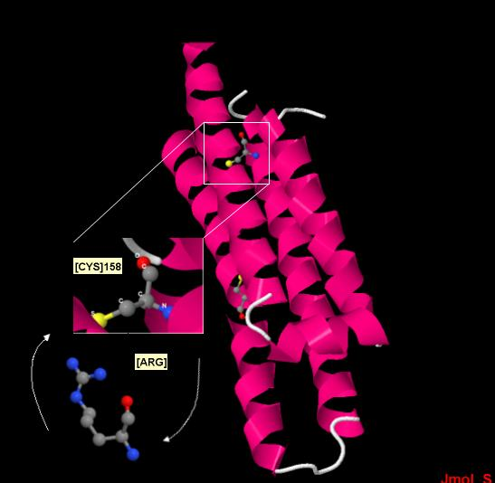 Structure of mutant apolipoprotein E2. A replacement in Arg158 by Cys is observed.